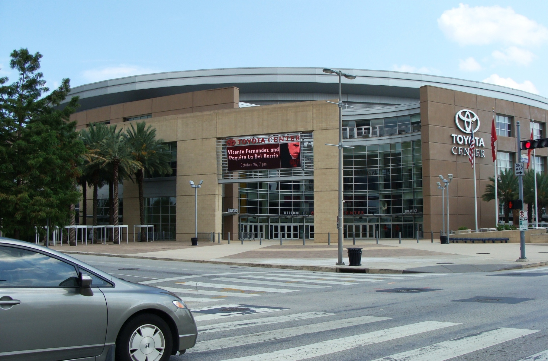 Toyota Center, Houston, Texas